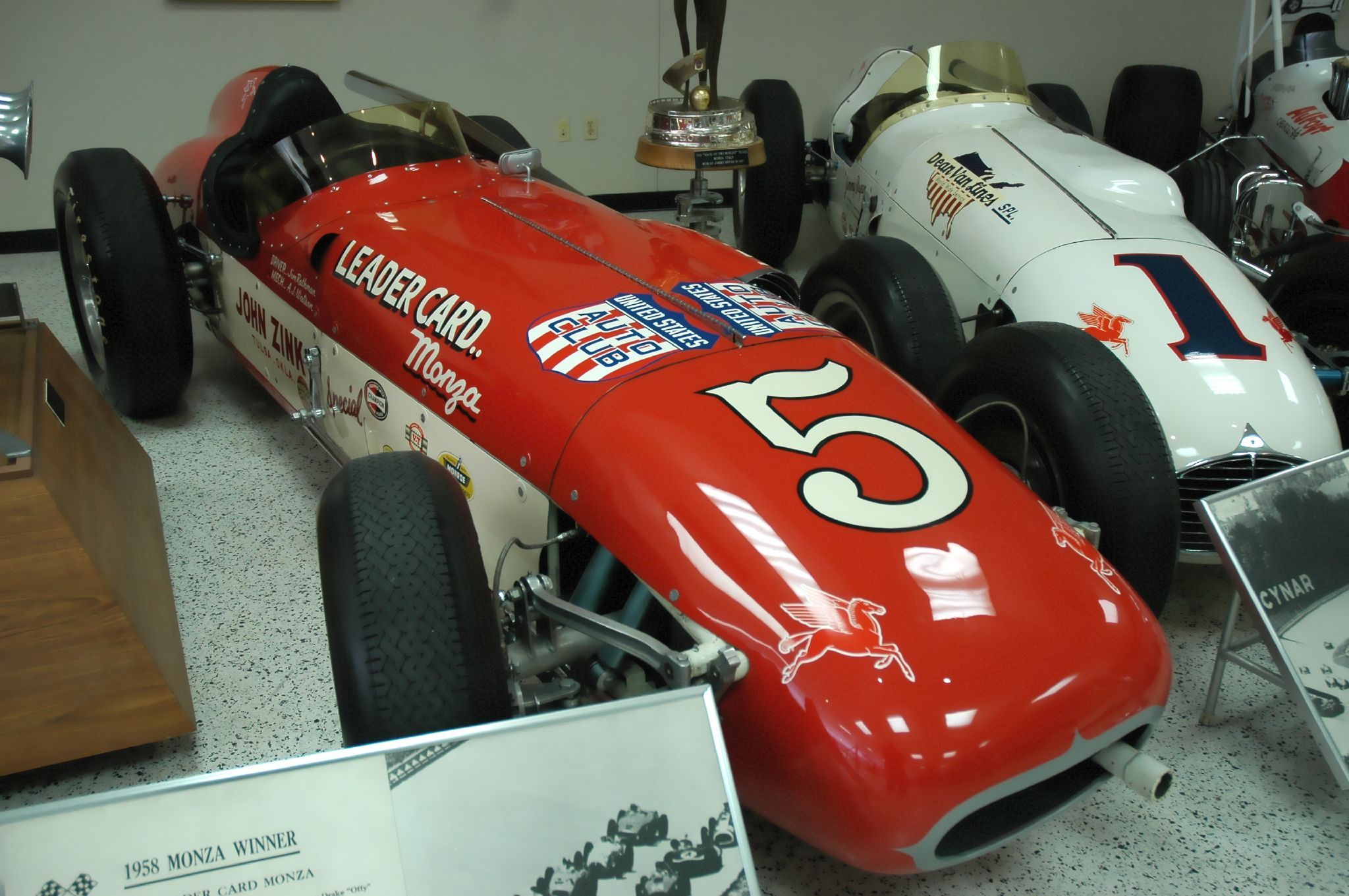 Jim Rathmann's 1958 John Zink Leader Card Monza Special, a Watson-Offenhauser USAC roadster, on display at the Indianapolis Motor Speedway Hall of Fame Museum